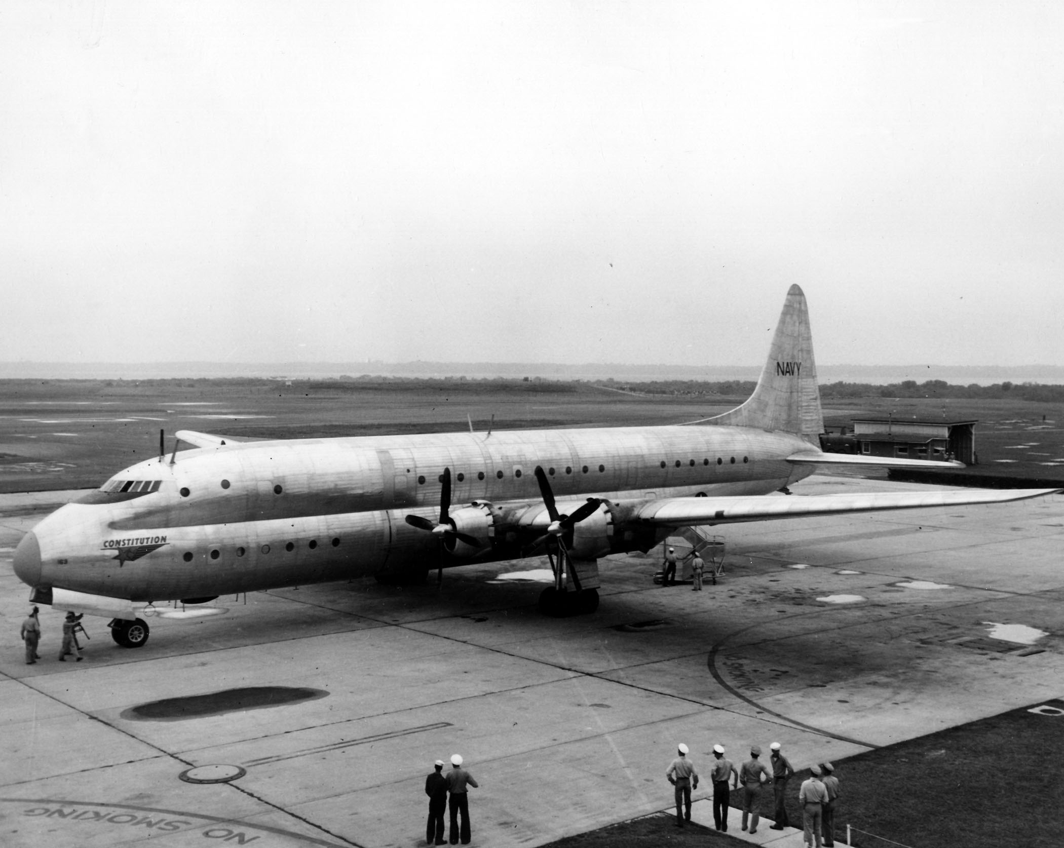 The Lockheed XR6O-1 Constitution (BuNo. 85163) arrives at the Naval Air Station Jacksonville, Florida (USA) on 27 September 1949. This aircraft made many trips to NAS Jacksonville. The U.S. Navy accepted two XR6O-1 in 1946/47, 85163 first flew 9 Nov 1946. They were operated by transport squadron VR-44 up to 1955.